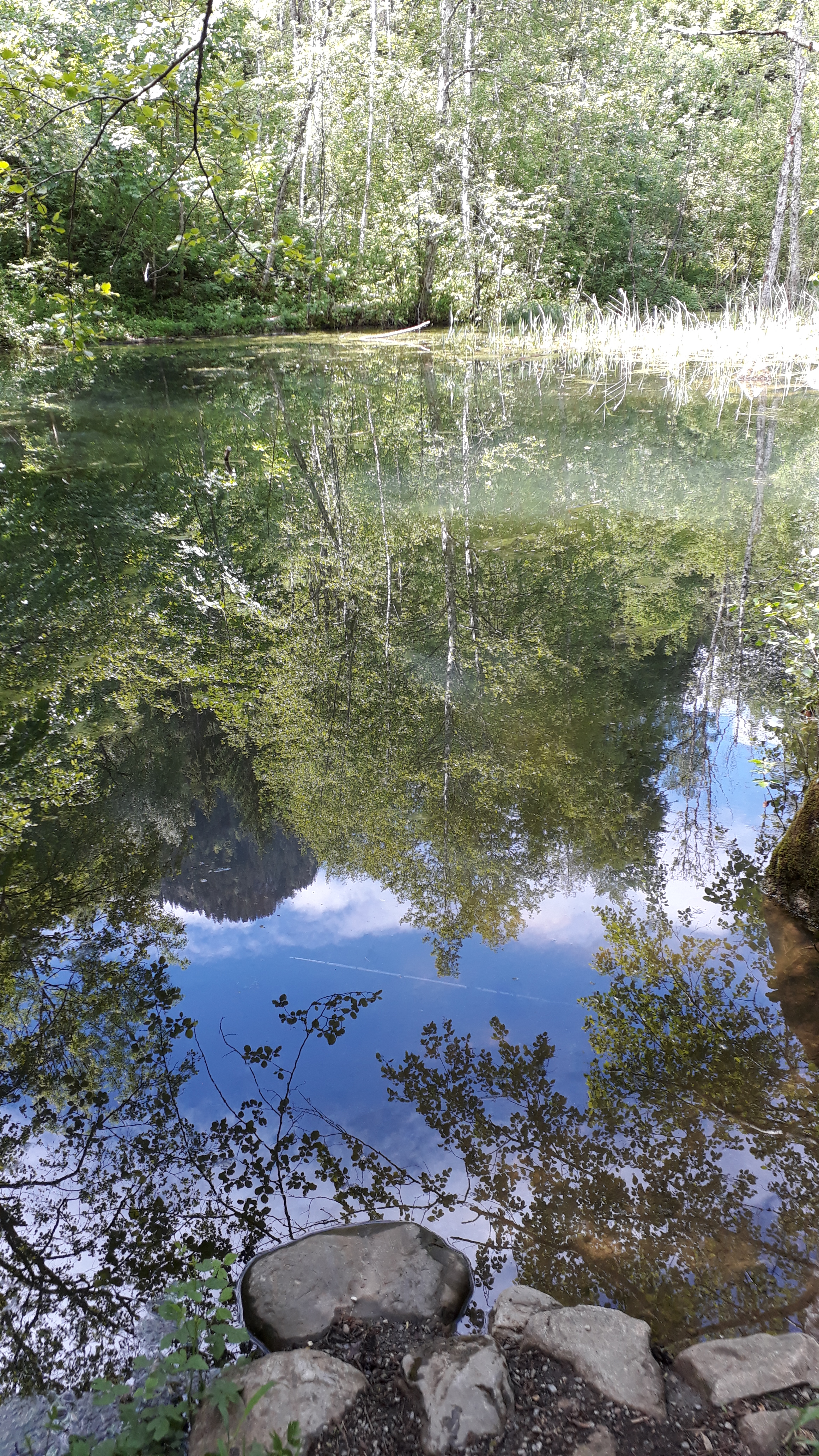 Biotope Rosenegg in Buers, Vorarlberg, Austria.